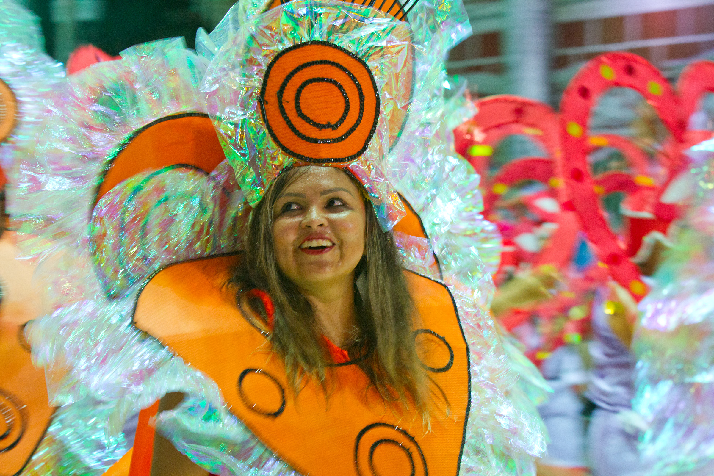 Dancer on the first night of Carnaval celebrations in Corumbá, Mato Grosso do Sul, Brazil.